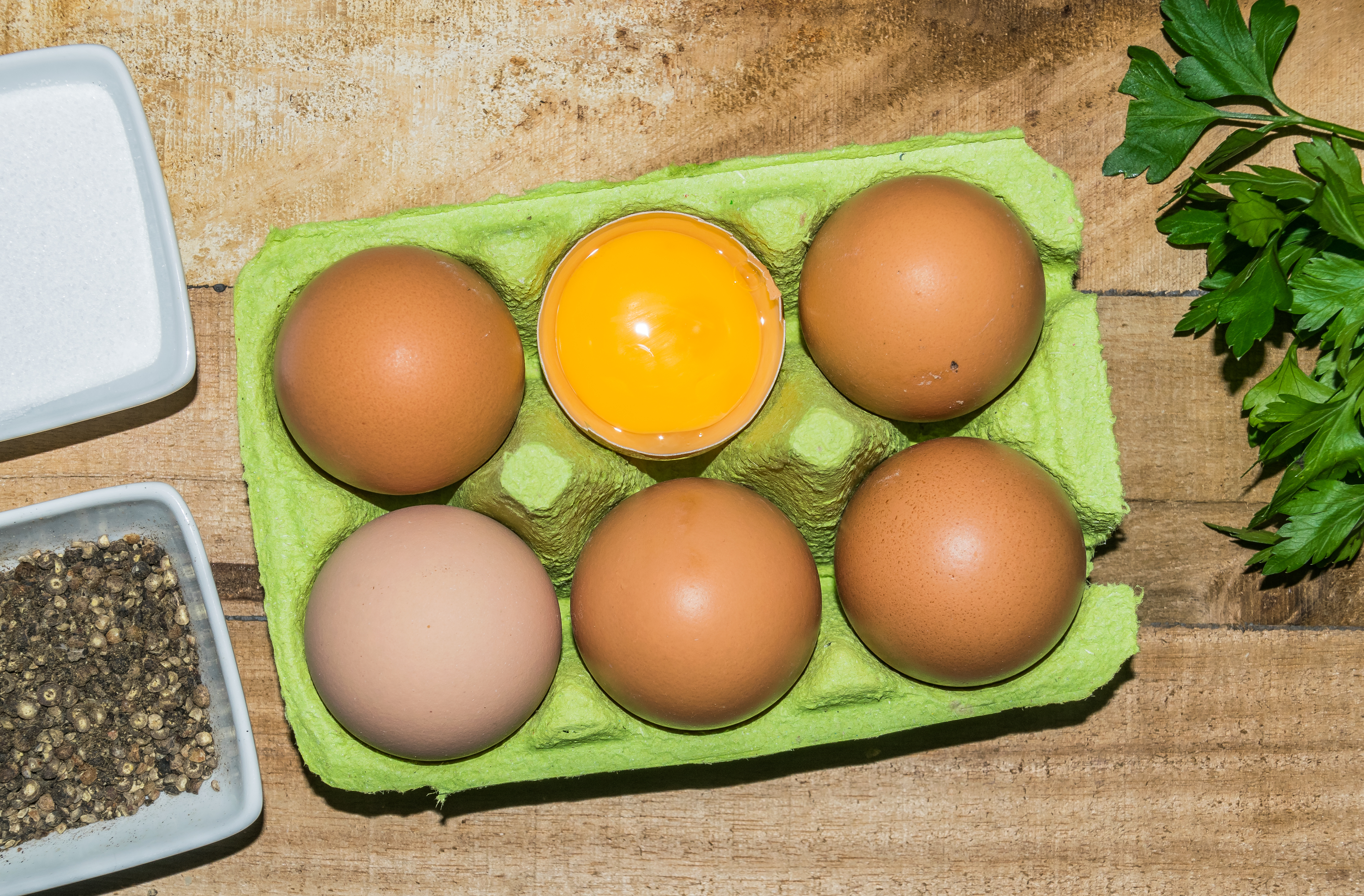 Egg carton with chicken eggs